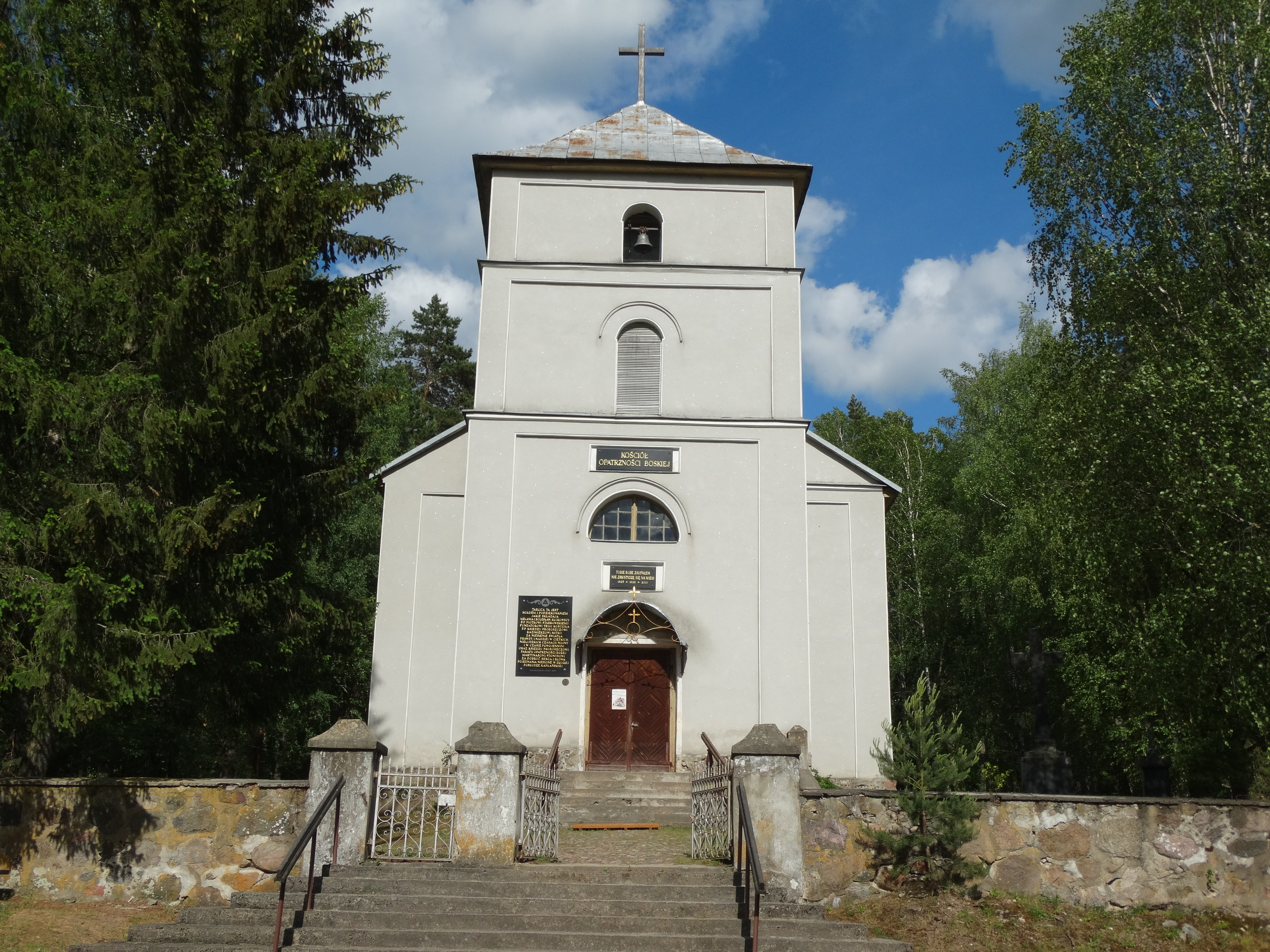 Church of the Providence of God, Balingradas, Švenčionys District, Lithuania